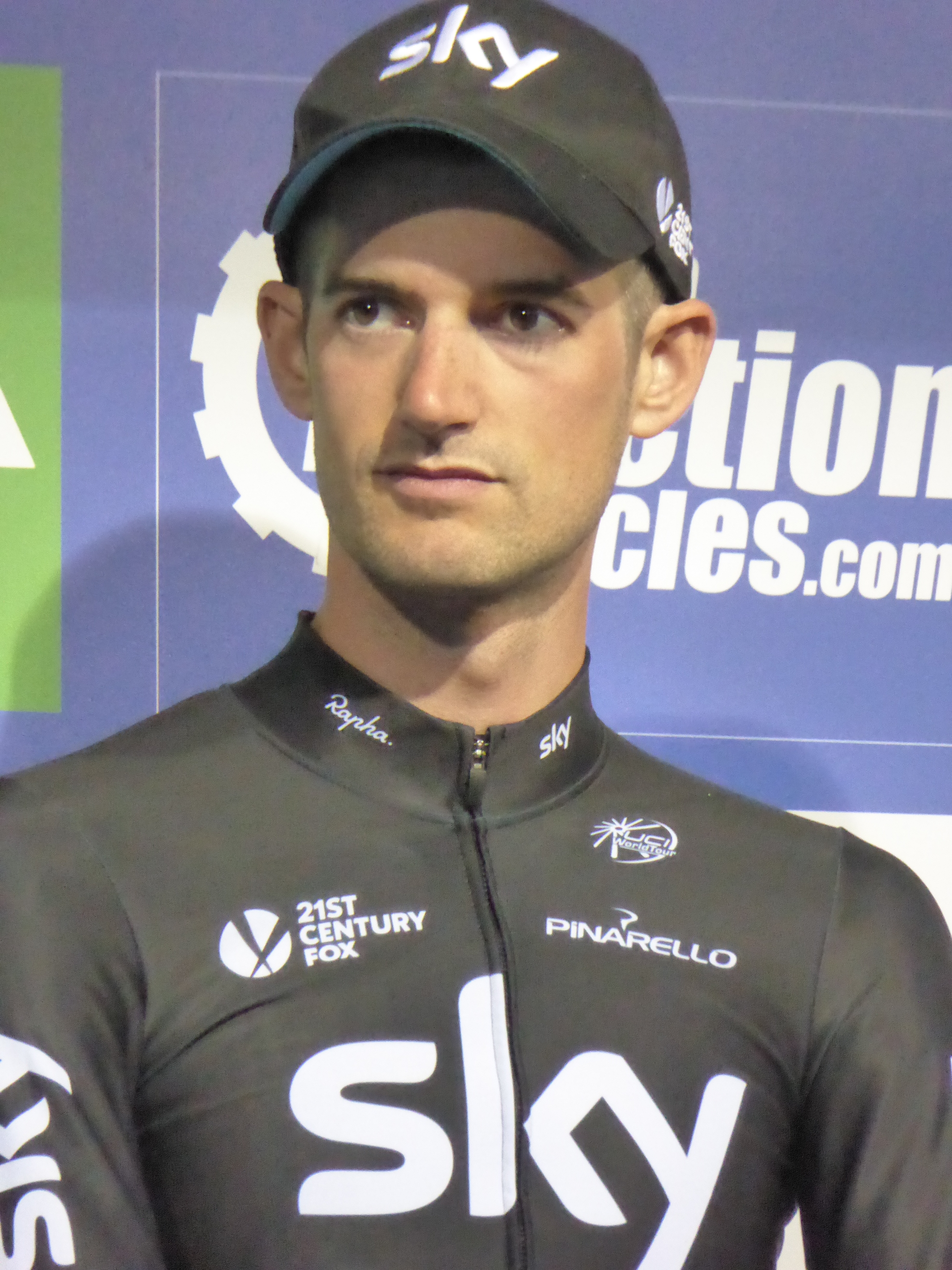 Wout Poels (Team Sky), pictured at the 2016 Tour of Britain team presentation in Glasgow on 3 September 2016.